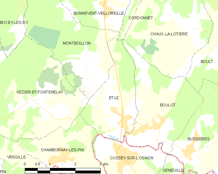 Map of French municipality